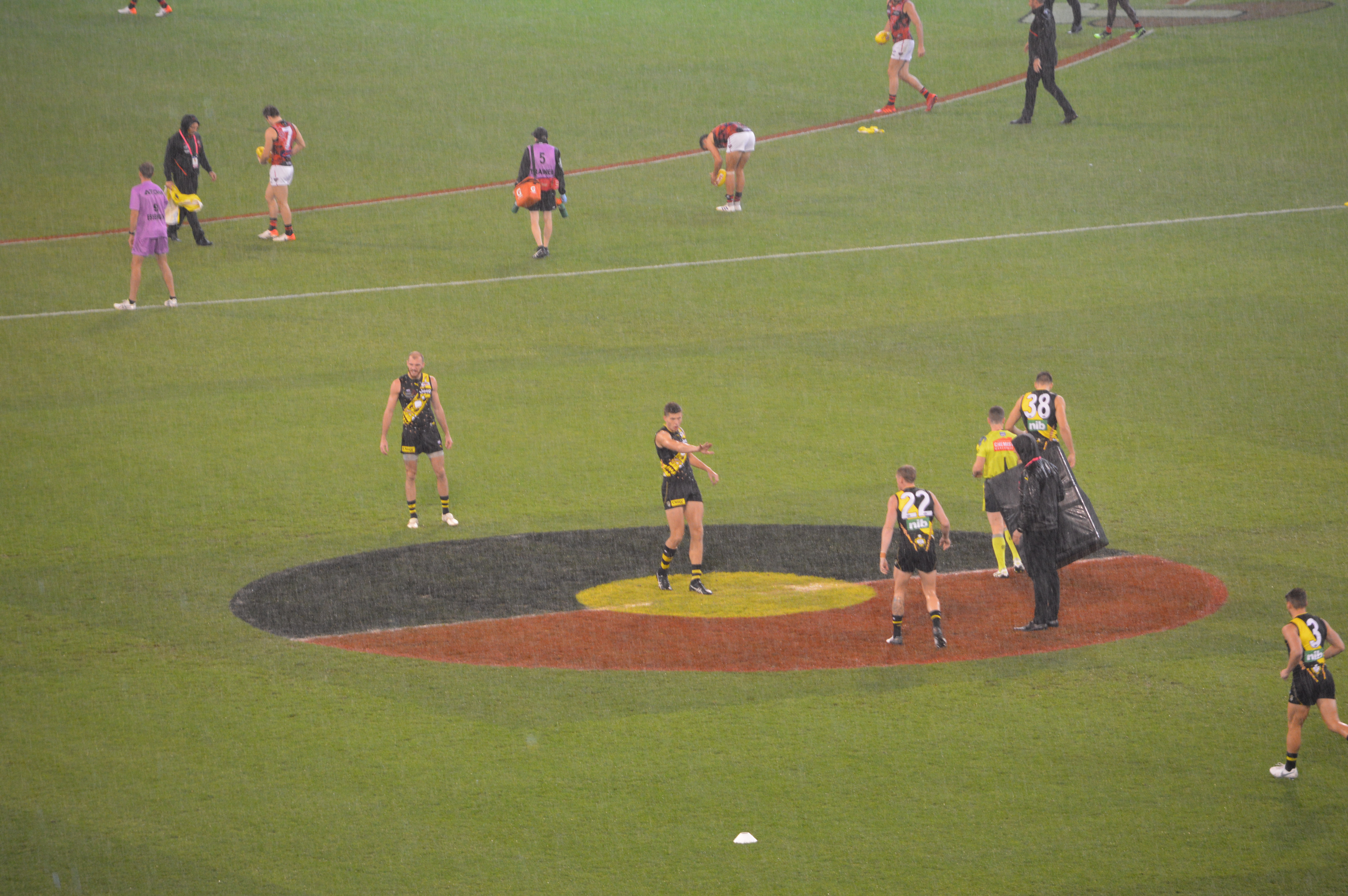 Richmond warms up in the centre circle in the round 10 Dreamtime at the 'G AFL match against Essendon at the MCG on 25 May 2019.